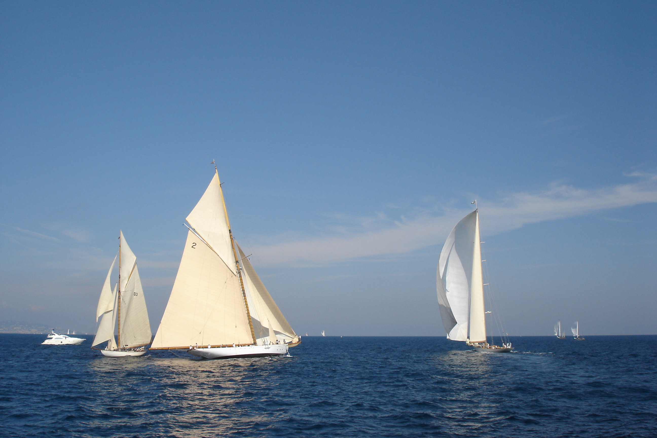 Régates Royales, Cannes, France (2006)This image portrays three "classic" sailing yachts in race. From left to right: S/Y Tuiga (IYRU 15 Metre Rule/D-Class, gaff-rigged cutter, 1909 build, William Fife III design, sail number D3) S/Y Lulworth (British Big Class, gaff-rigged cutter, 1920 build, Herbert William White design, sail number 2) S/Y Cambria (International 23 Metre Rule/Universal Rule J-Class/British Big Class, bermuda-rigged cutter, 1928 build, William Fife III design, sail number K4) In this picture taken on the fifth and last day of racing, Cambria had overtaken Lulworth at a buoy (behind the photographer), and a collision course between Tuiga and Lulworth forced the former to carry out an emergency tack and the latter to head up whilst under 500m² spinnaker run. aerial photographs in sequence